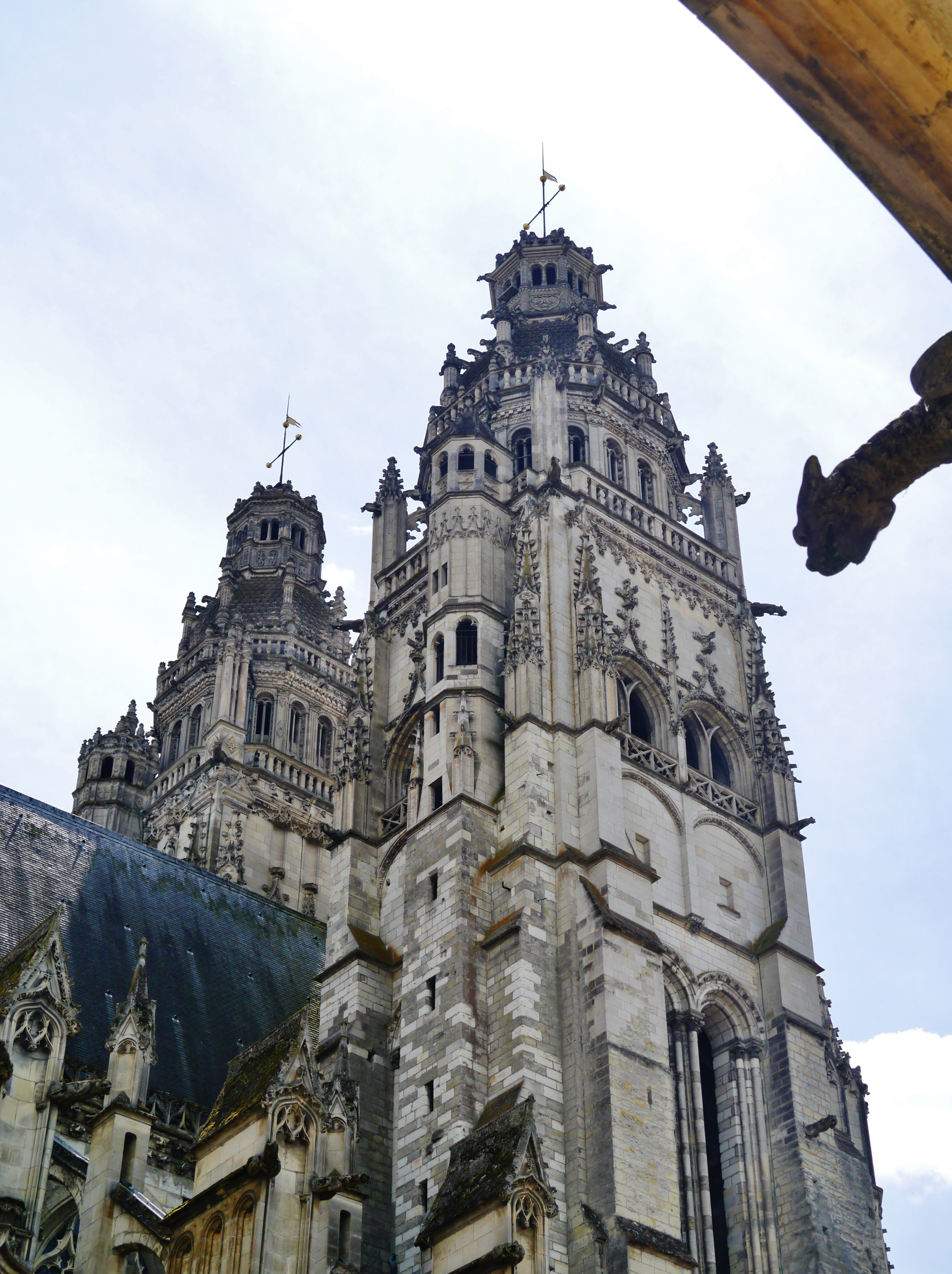 Towers of the Cathedral of St. Gatianus, Tours, Department of Indre-et-Loire, Region of Centre-Loire Valley, France